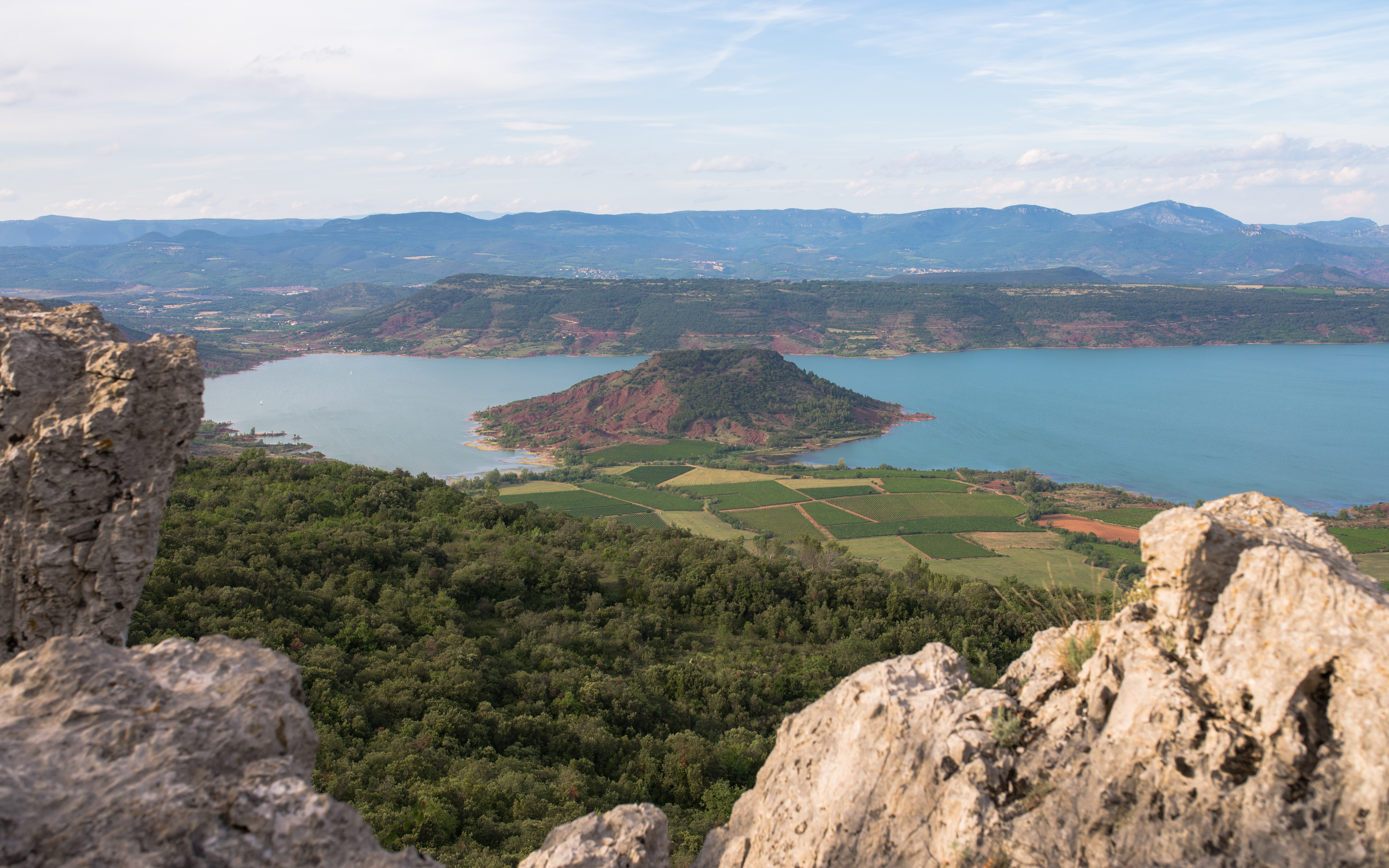 The Presque-isle and Mount of Rouens (253m) in the commune of Clermont-l'Hérault and the "Lac du Salagou". Photo taken from the Southwest in the commune of Liausson. Hérault, France.